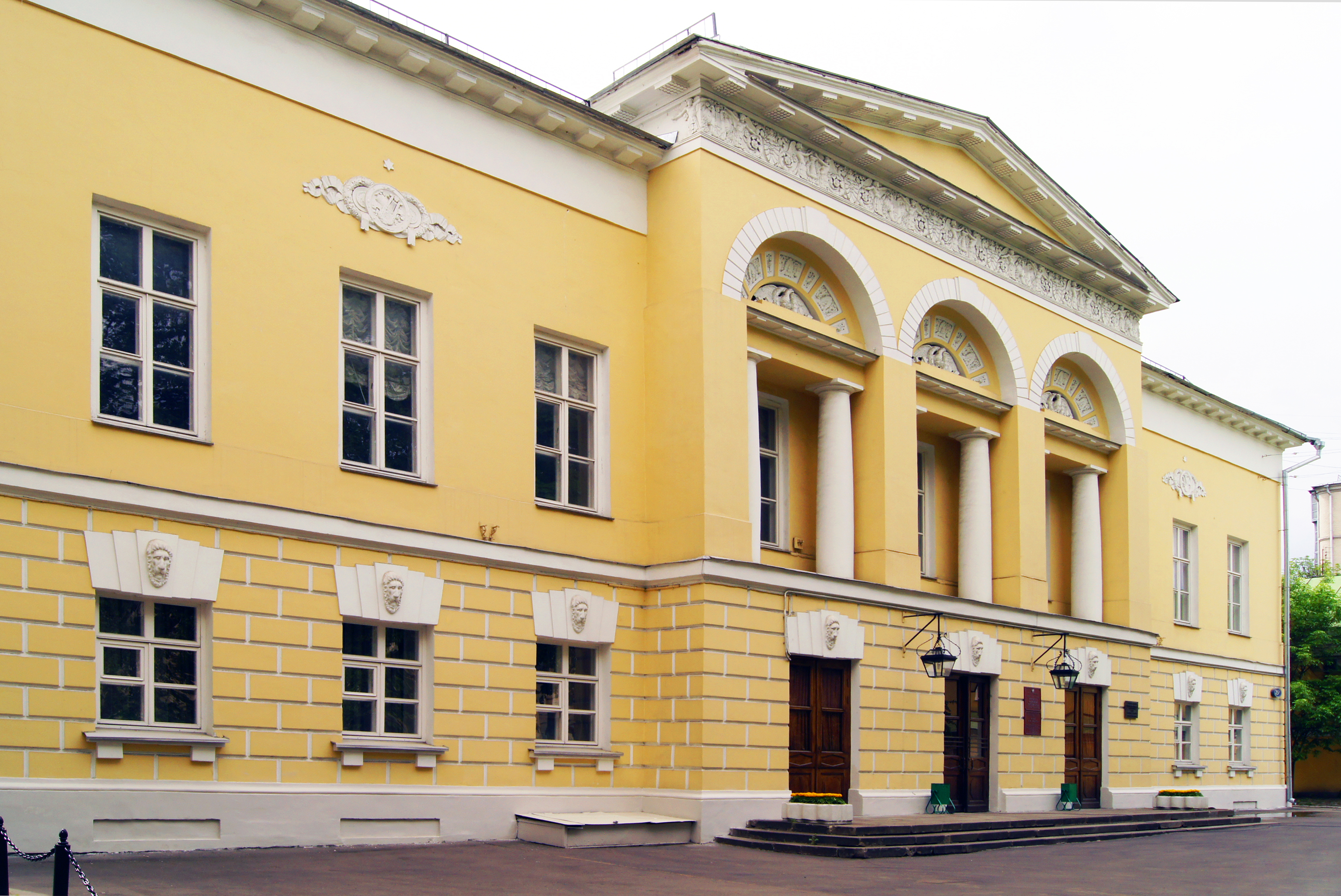 World Literature Institute, Moscow. Built in 1820s as Gagarin house by Domenico Gilardi - this is one of the few own designs by Giliardi